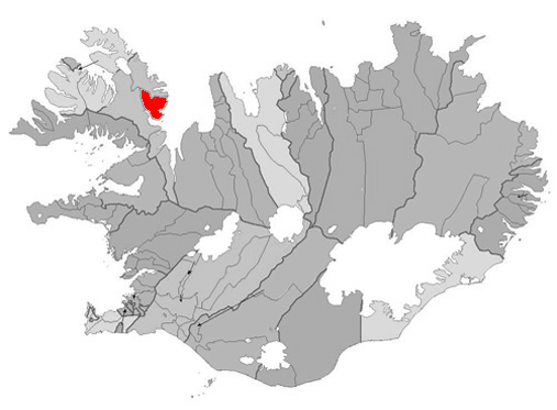 Kaldrananeshreppur, Icelandic municipality Own work based on Image:Municipalities_of_Iceland.png using The Gimp